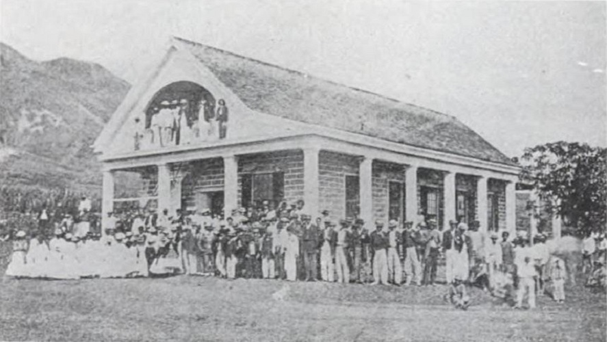 Photograph of the Royal School, taken in 1857. This is the second Royal School which the public was admitted in 1850 after the original school was discontinued.